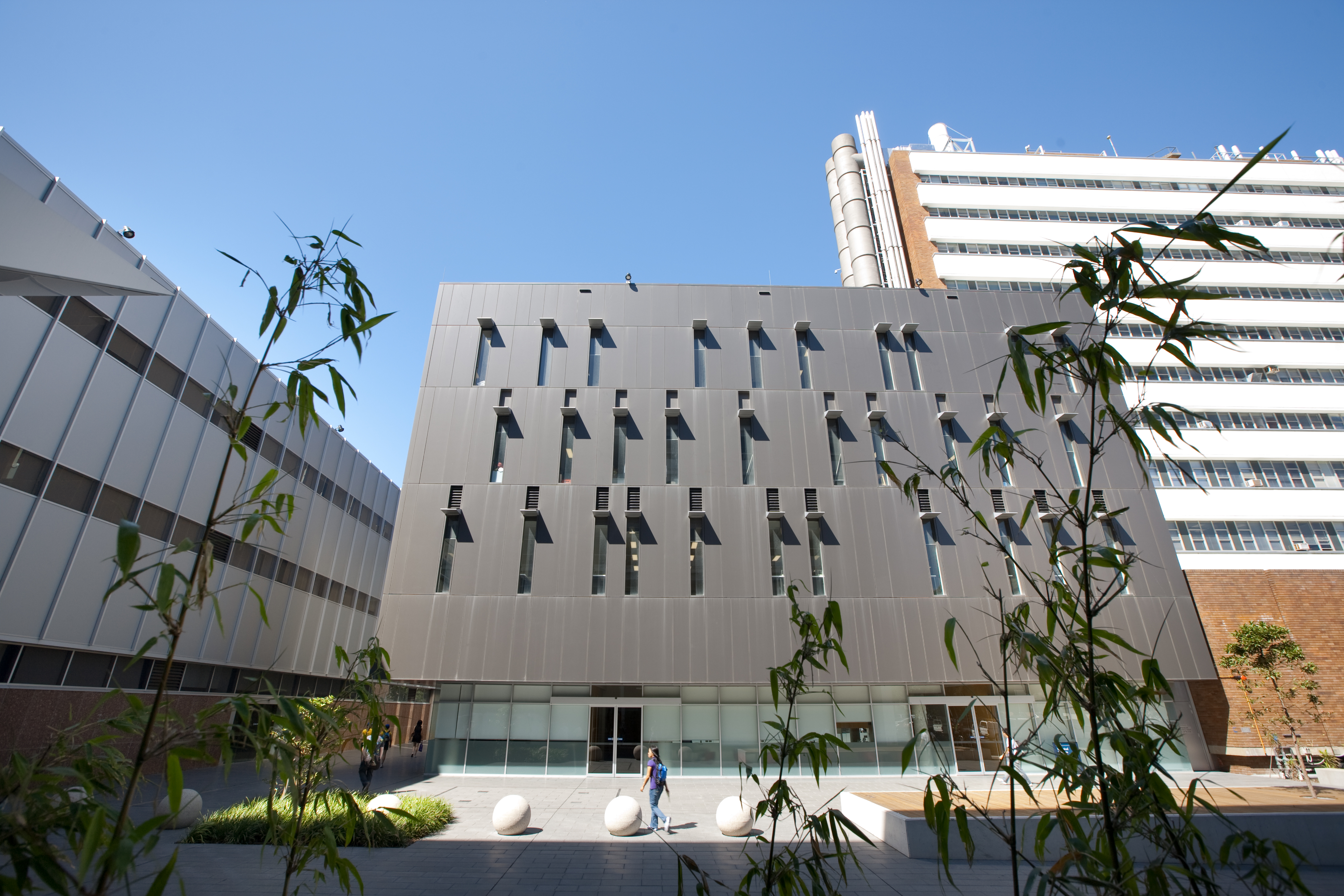 Chemical Sciences building at the University of New South Wales.